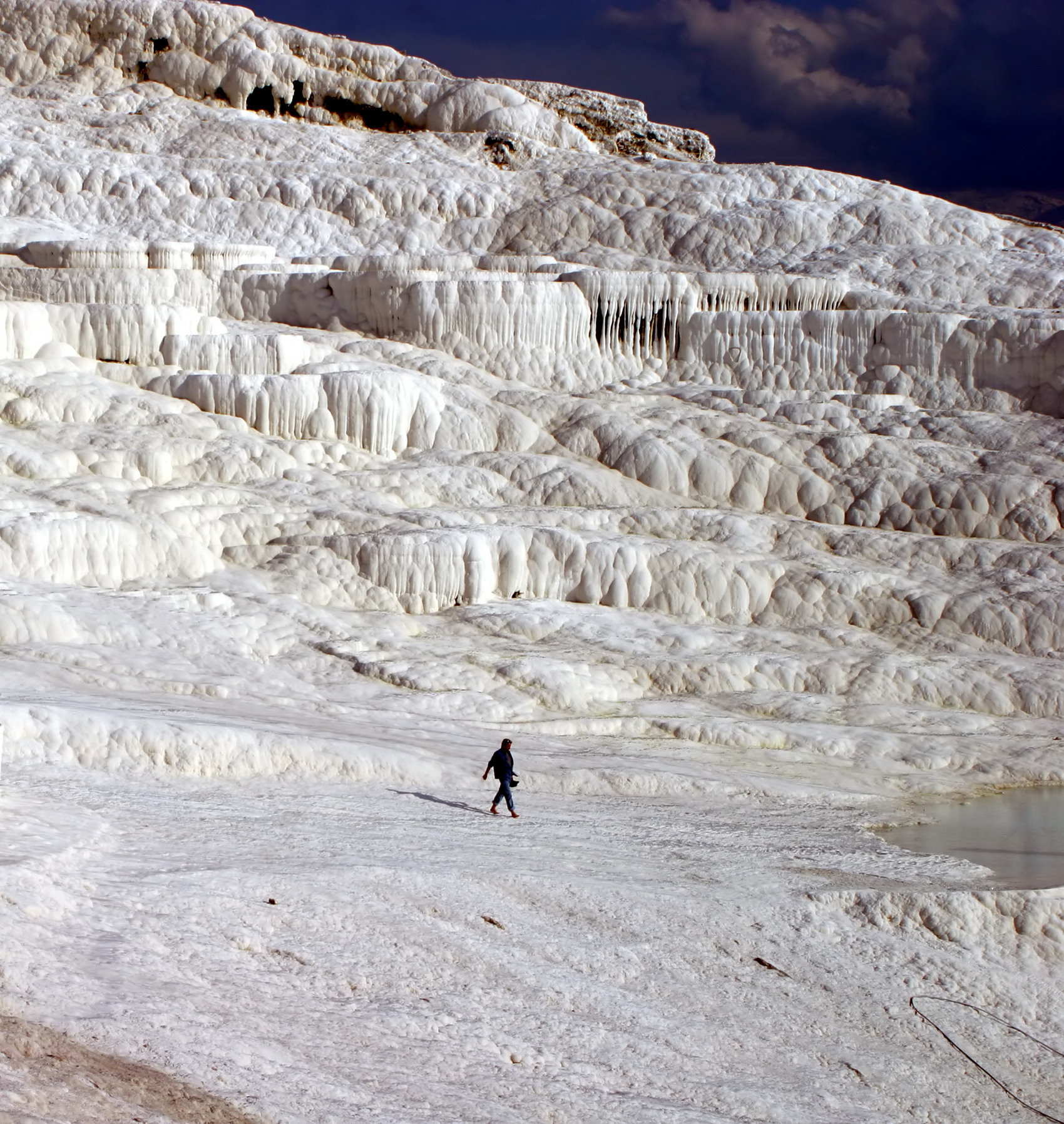 A hanging limestone walls and hot springs at Pamukkale.